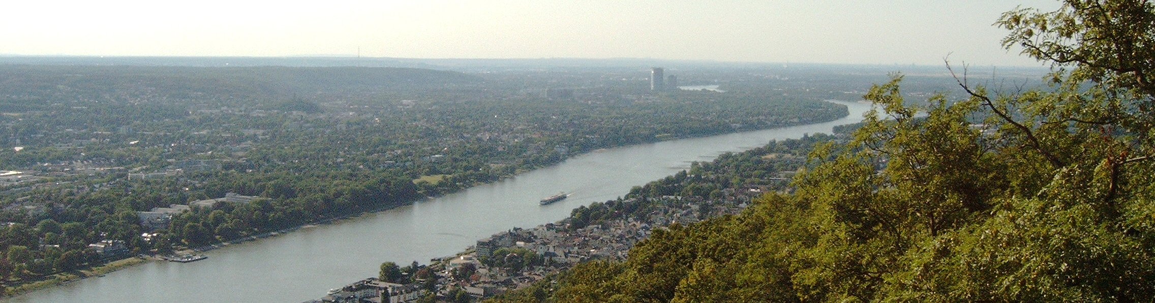 Panorama of Bonn, view from Drachenfels